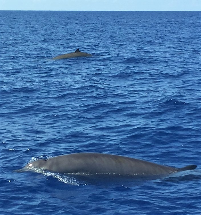 Two female or young adult Gervais' Beaked Whales in North Carolina's Gulf Stream.